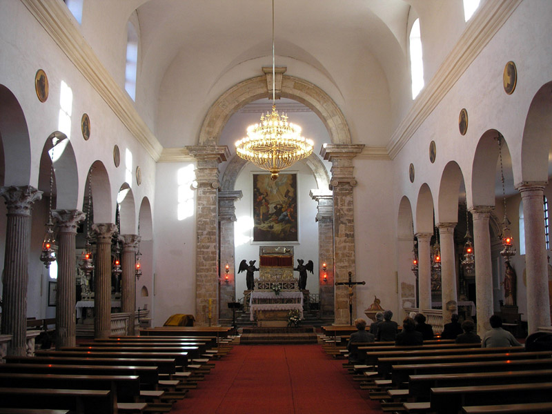 St. Simeon's Church